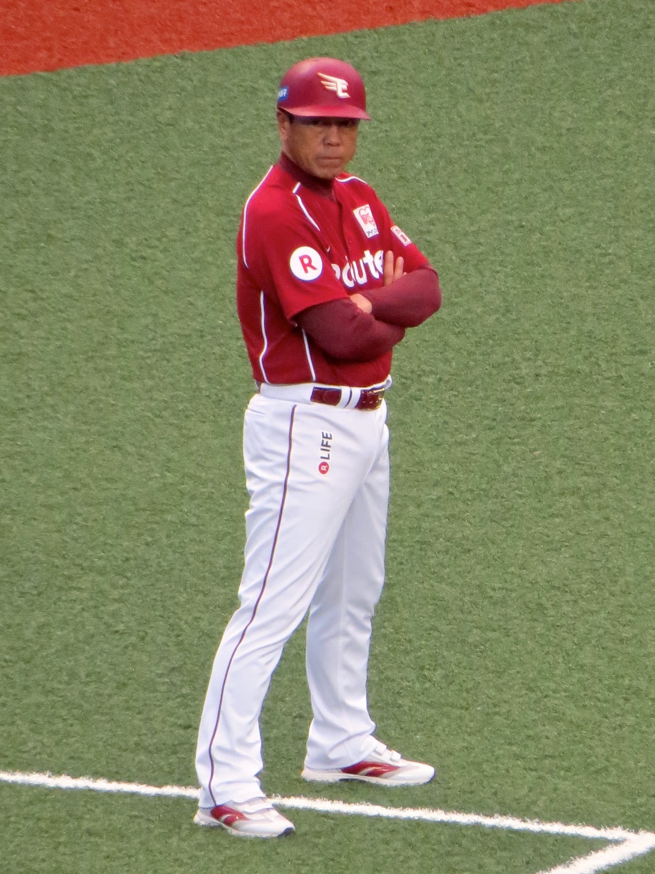 Yasunaga Makishi, a coach of the Tohoku Rakuten Golden Eagles, at the Seibu Dome